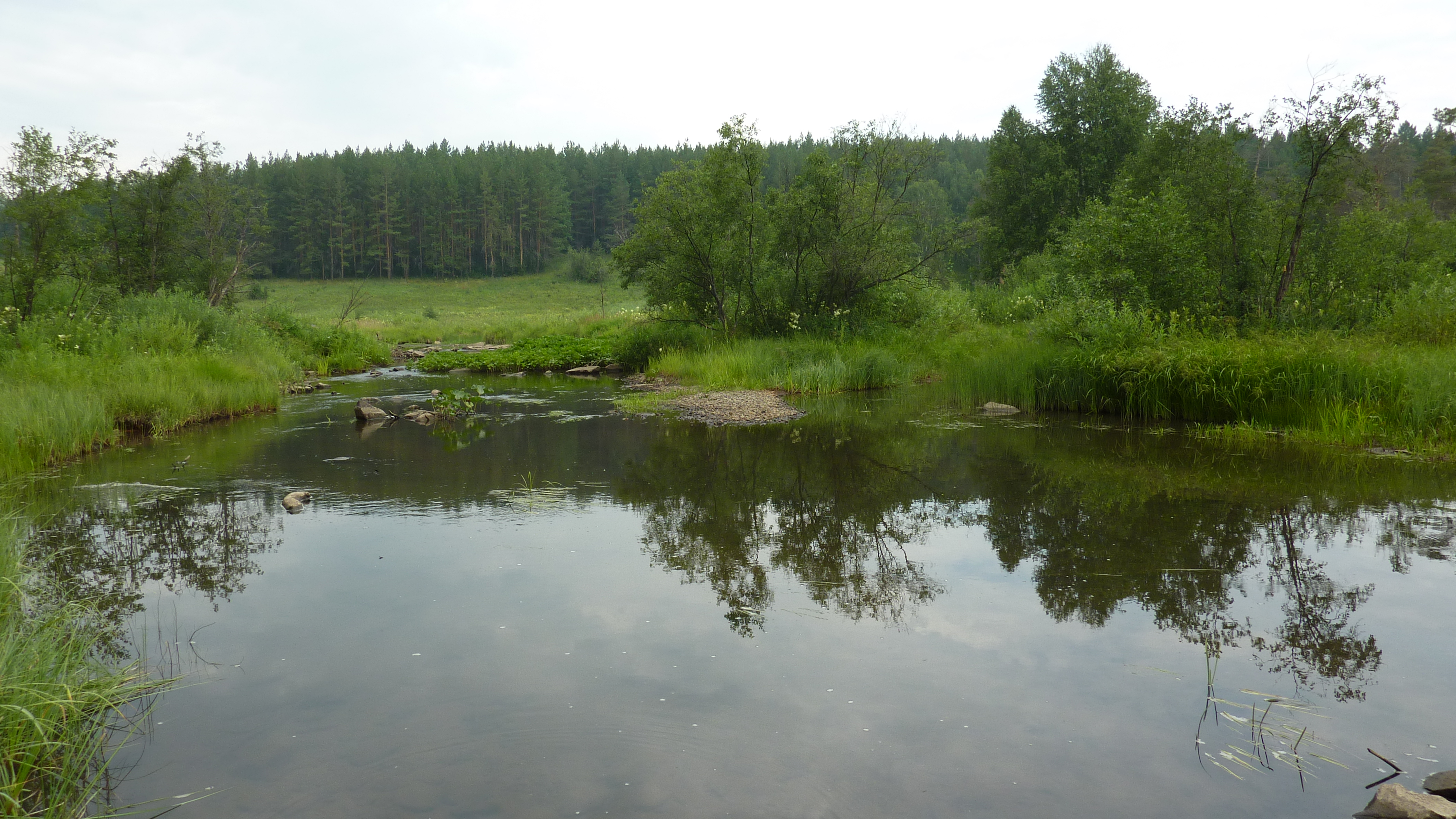 Ford across Ai river.